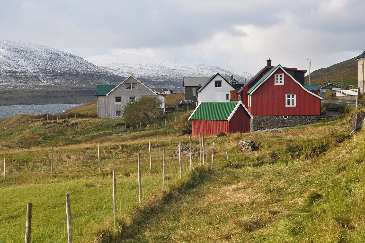 The village of Svináir on Eysturoy, Faroe Islands Het dorp Svináir op Eysturoy, Faeroer Eilanden